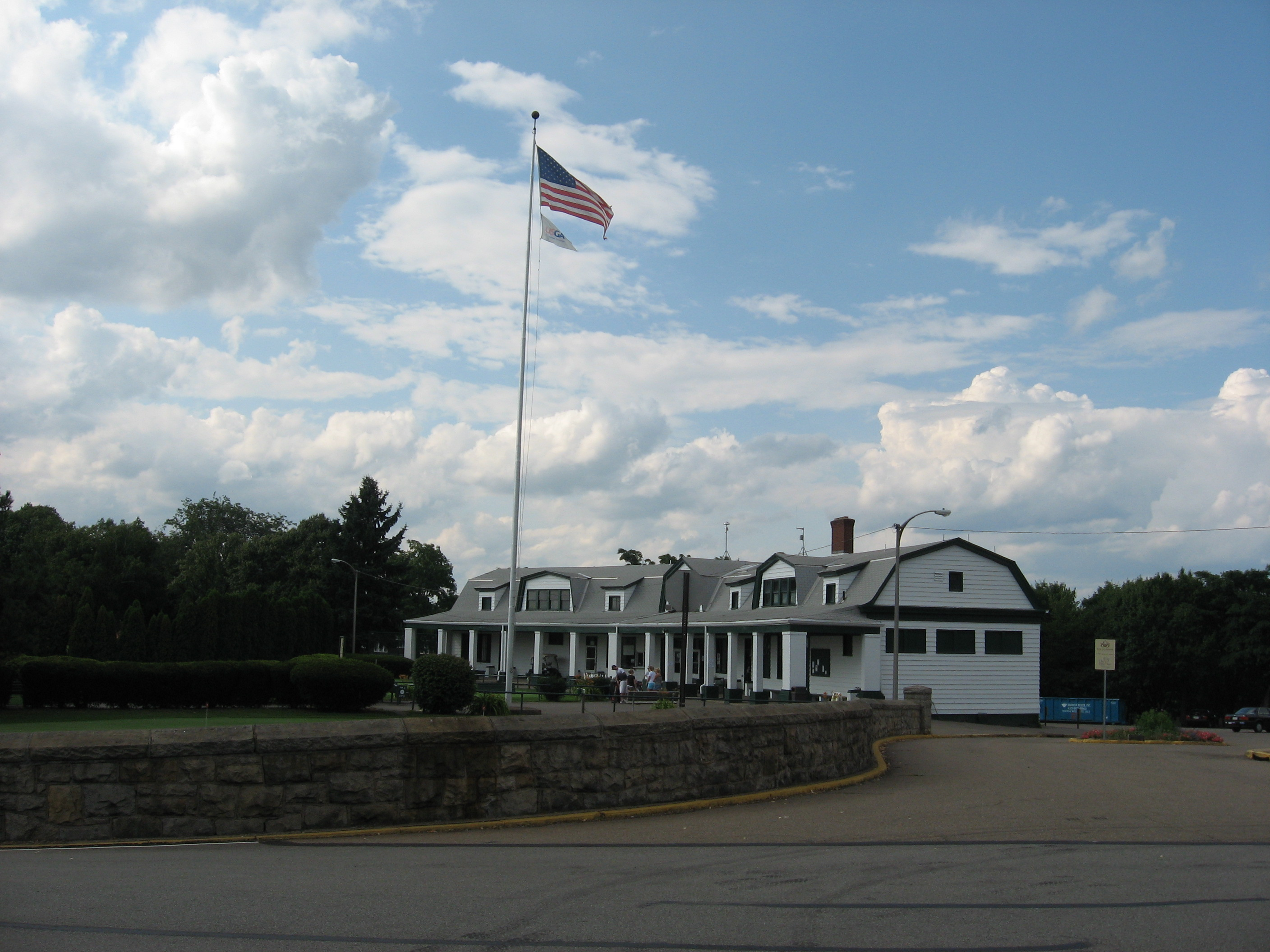 the Schenley Park Golf Course Schenley Park in Pittsburgh. 40°26′17.6″N 79°56′4.1″W / 40.438222°N 79.934472°W